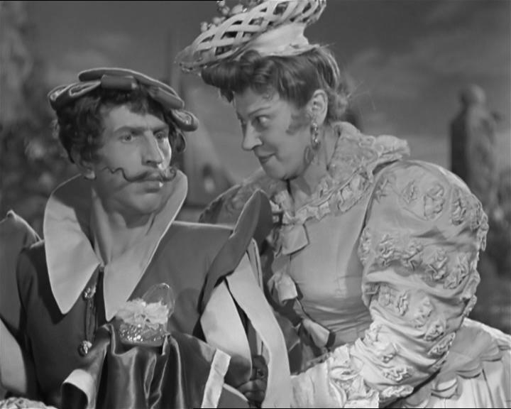 Sergey Filippov as Corporal (left) and Faina Ranevskaya as Cinderella's stepmother in Cinderella (1947)